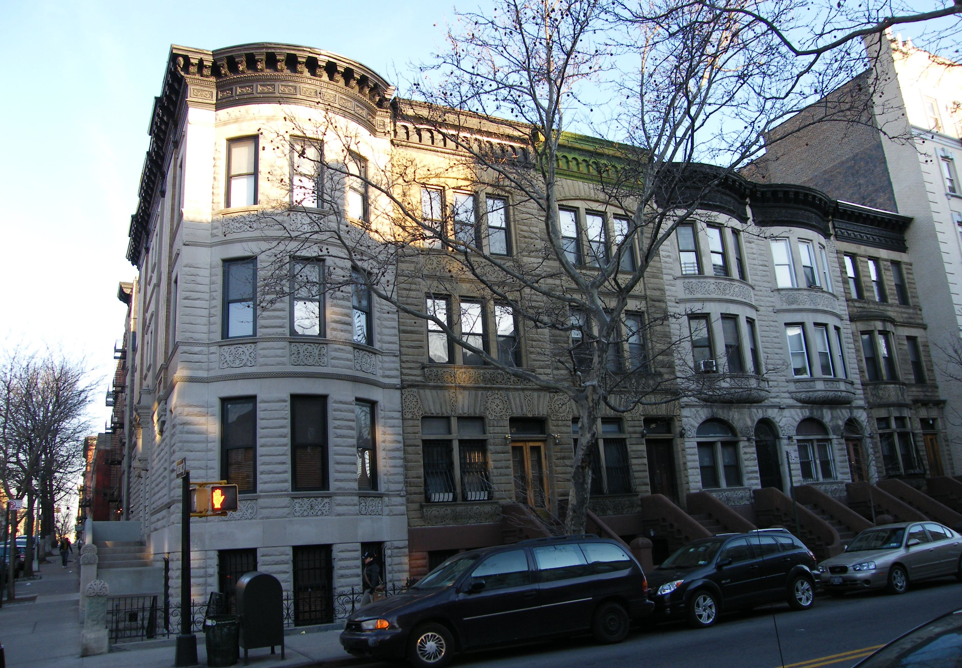 Sugar Hill neighborhood on National Register of Historic Places in New York City